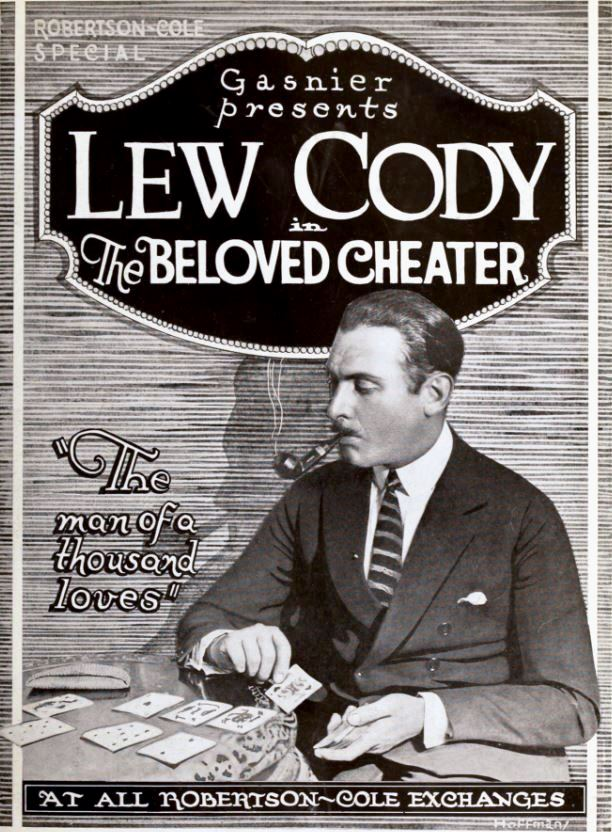 Advertisement for the American comedy film The Beloved Cheater (1919) with Lew Cody, from the insert after page 2 of the December 20, 1919 Exhibitors Herald.